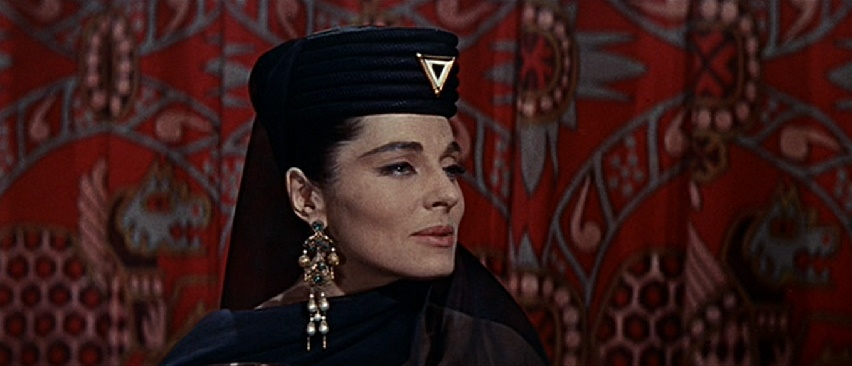 Viveca Lindfors in a preview of The Story of Ruth.